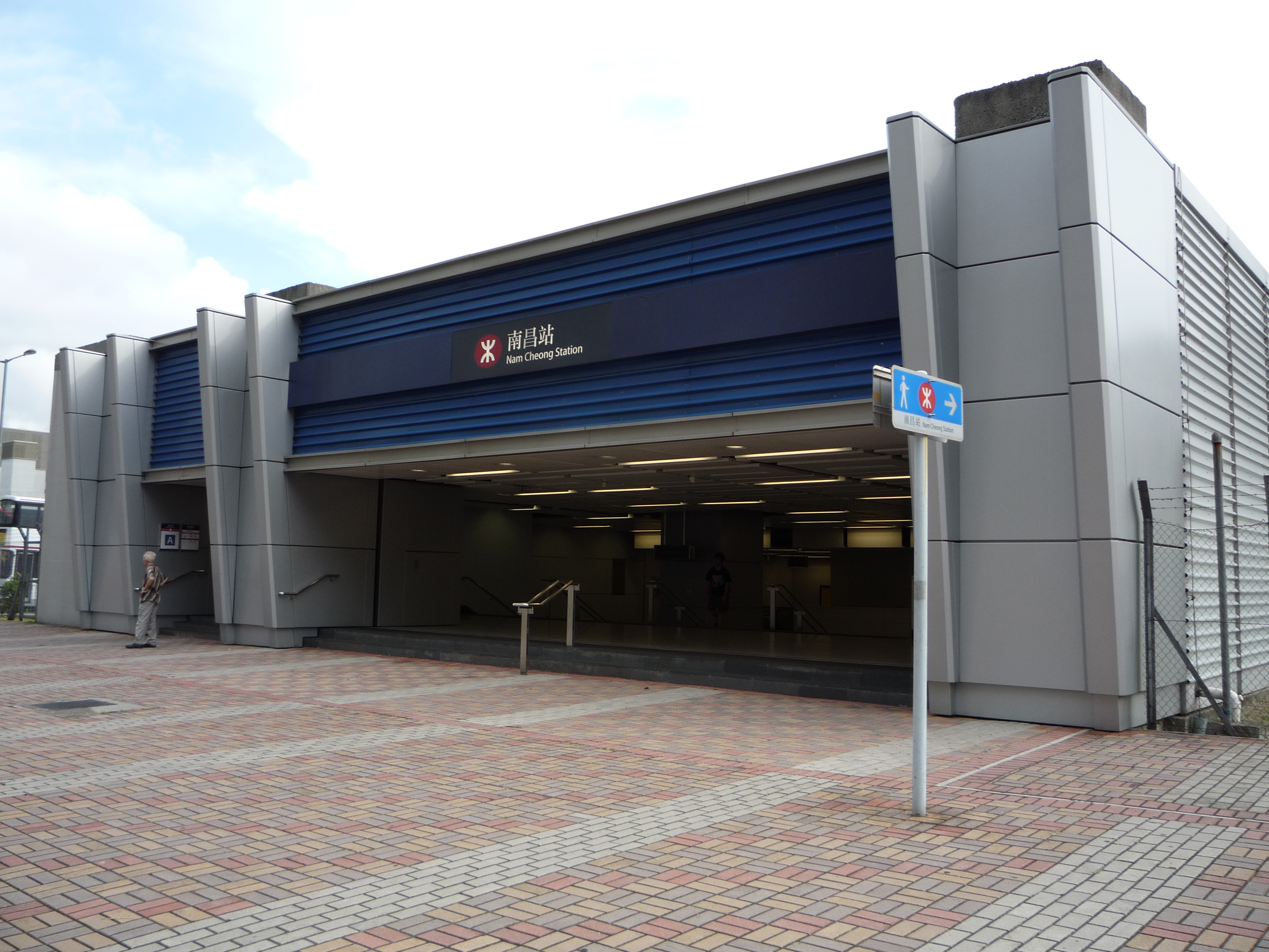 MTR Nam Cheong Station Exit A